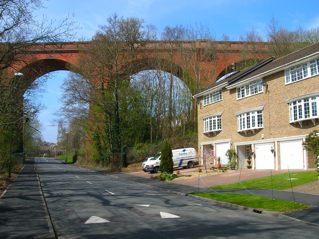 Imberhorne Viaduct Built in 1882 to carry the branch line from Lewes over a small Wealden valley and into East Grinstead. The line was closed in 1958 but the viaduct somehow survived being used by British rail as a turning point for their now terminus in East Grinstead. In recent years it has been purchased by the Bluebell Railway who are currently building an extension of their line from Kingscote to rejoin the main network nearby. In the near future steam trains will once again be seen travelling over the viaduct. This view is of three of the nine arches south of the viaduct.